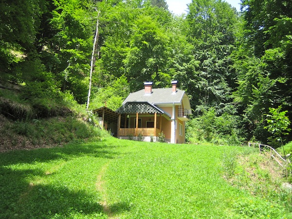 Chodosova cottage 2